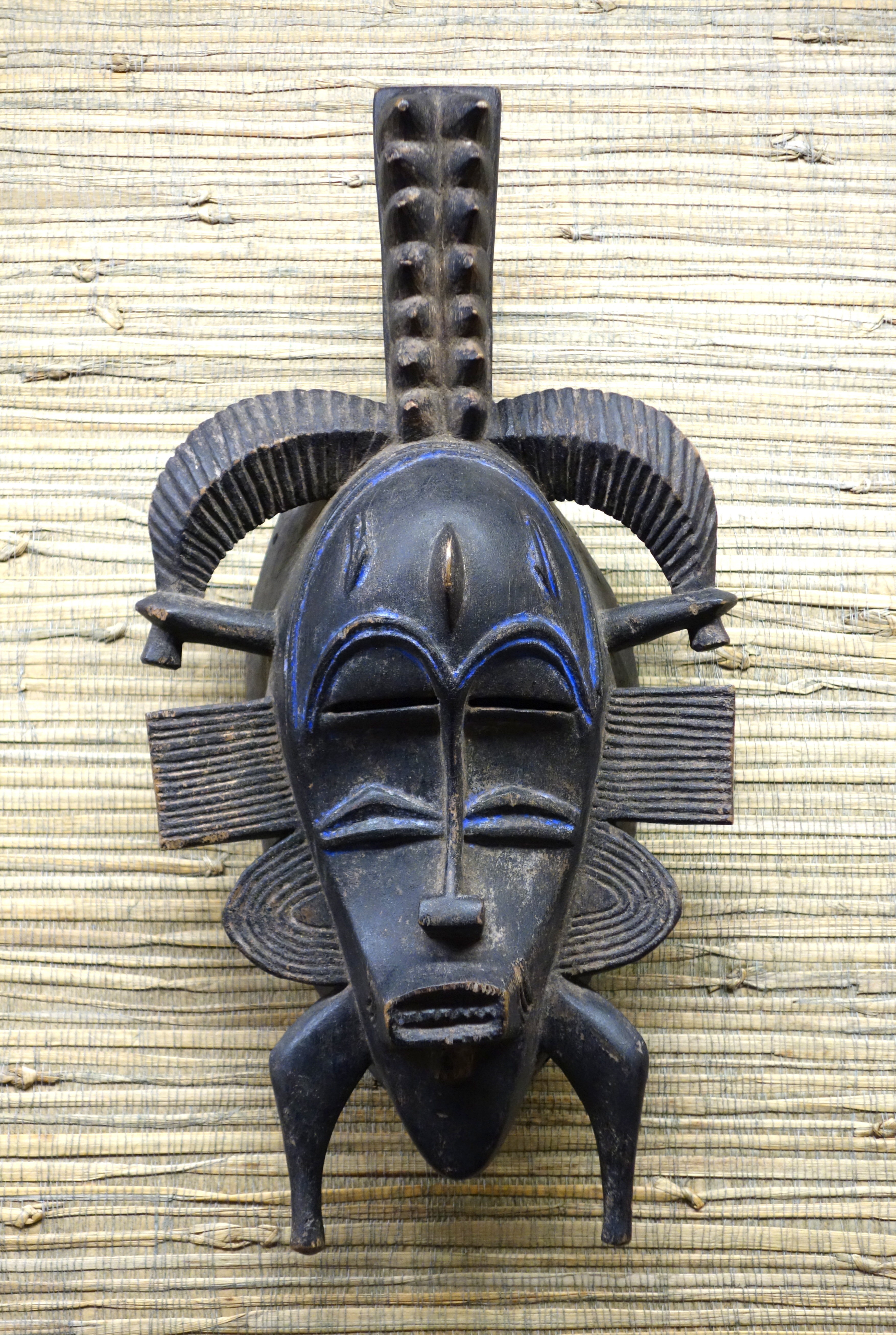 Exhibit in the Royal Museum for Central Africa, Tervuren, Belgium. This object is old enough so that it is in the public domain.